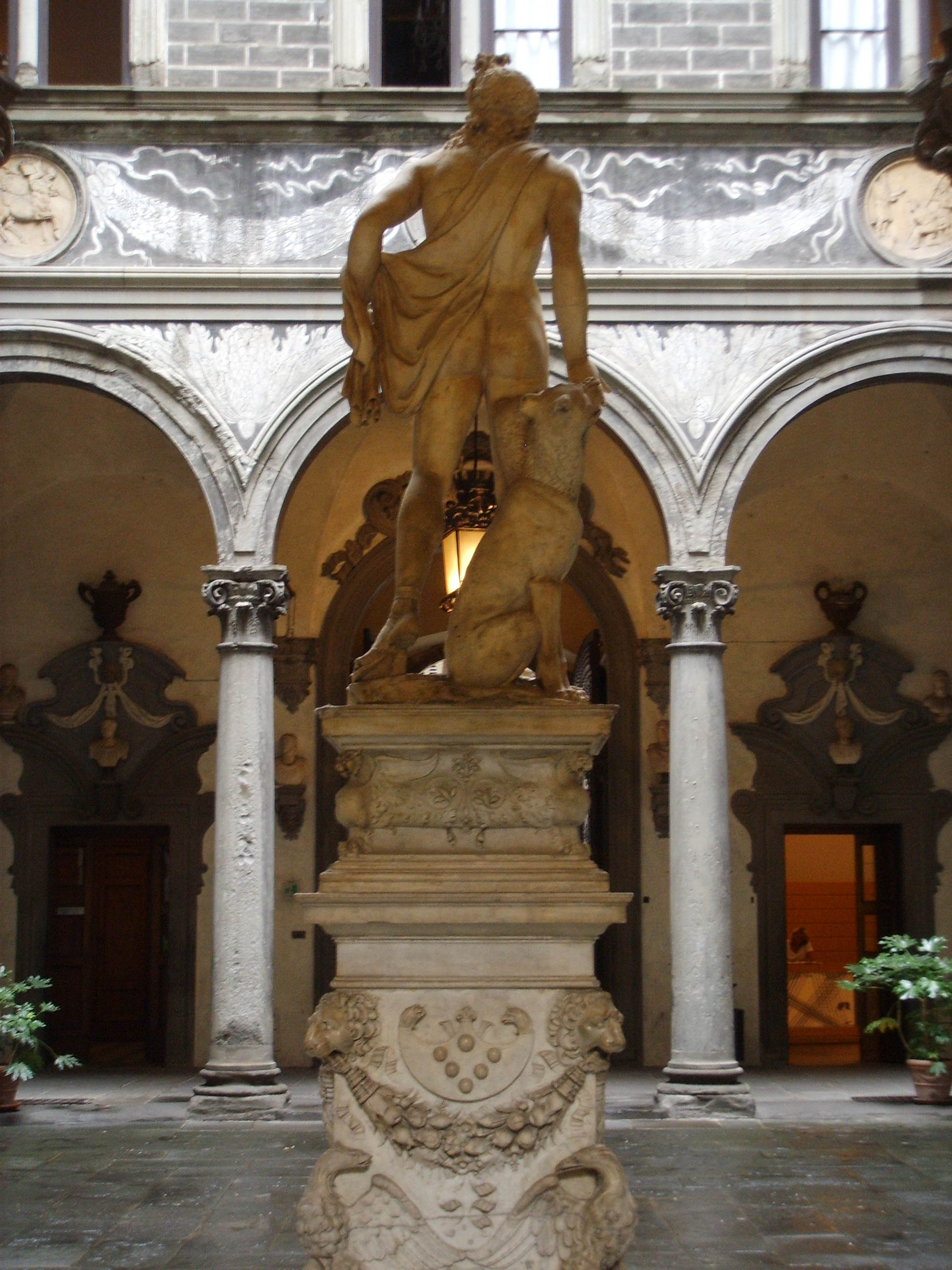 Palazzo Medici Riccardi in Florence, Italy: courtyard, with the statue of Orpheus and Cerberus, by Baccio Bandinelli.